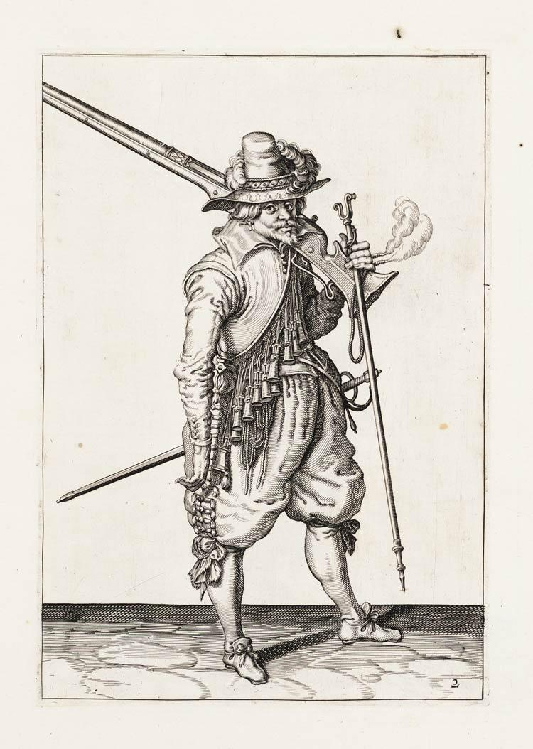 Instructions for the use of the musket. Instruction 2: March and carry the firing rest alongside the musket